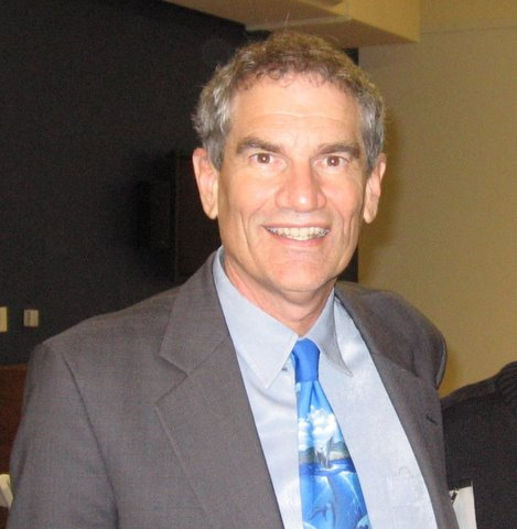 Duane Silverstein, Executive Director of Seacology, at the 2009 Seacology Prize Ceremony in San Francisco, CA.